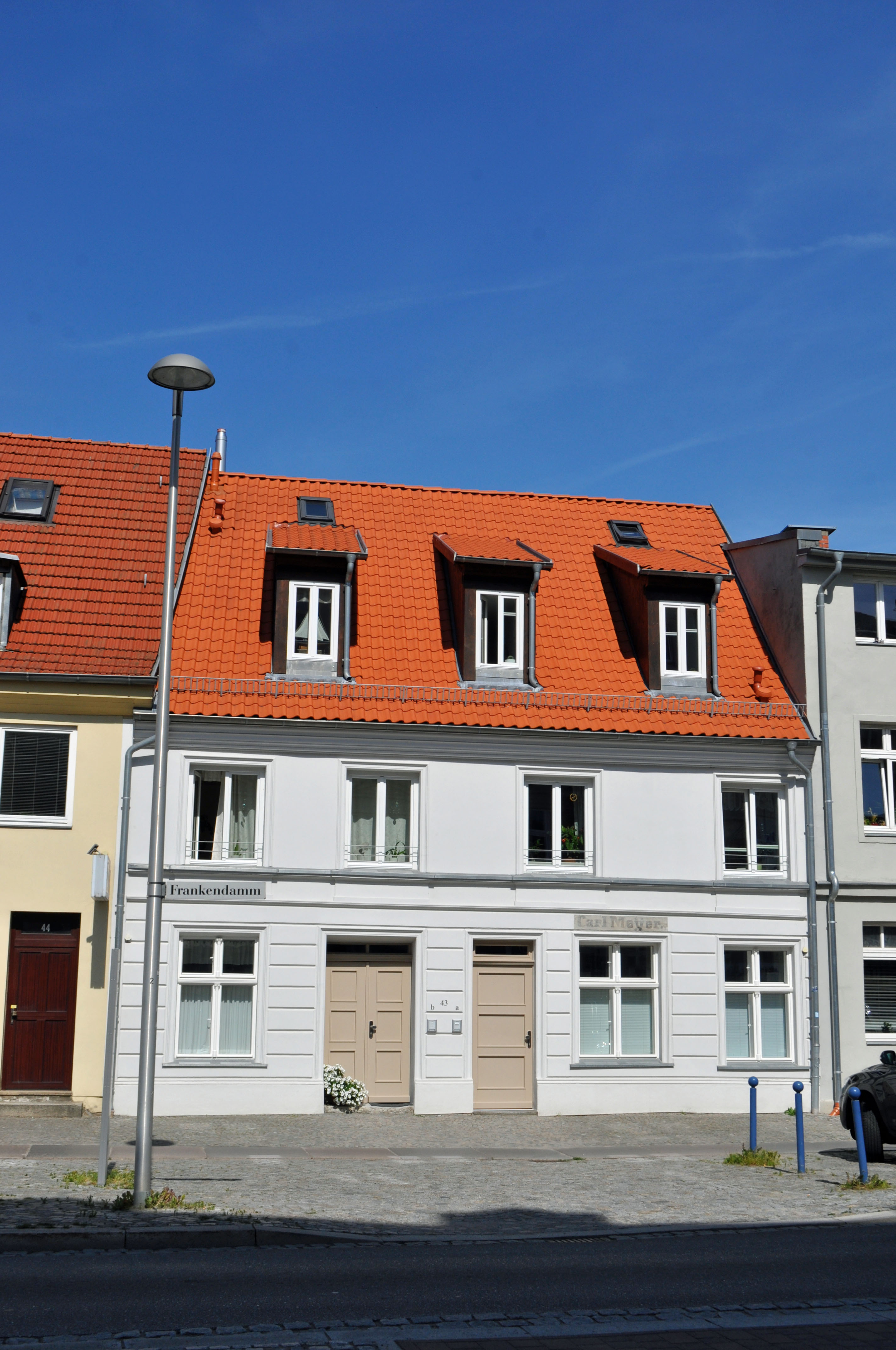 Stralsund, Wasserstraße 43 This is a photograph of an architectural monument.